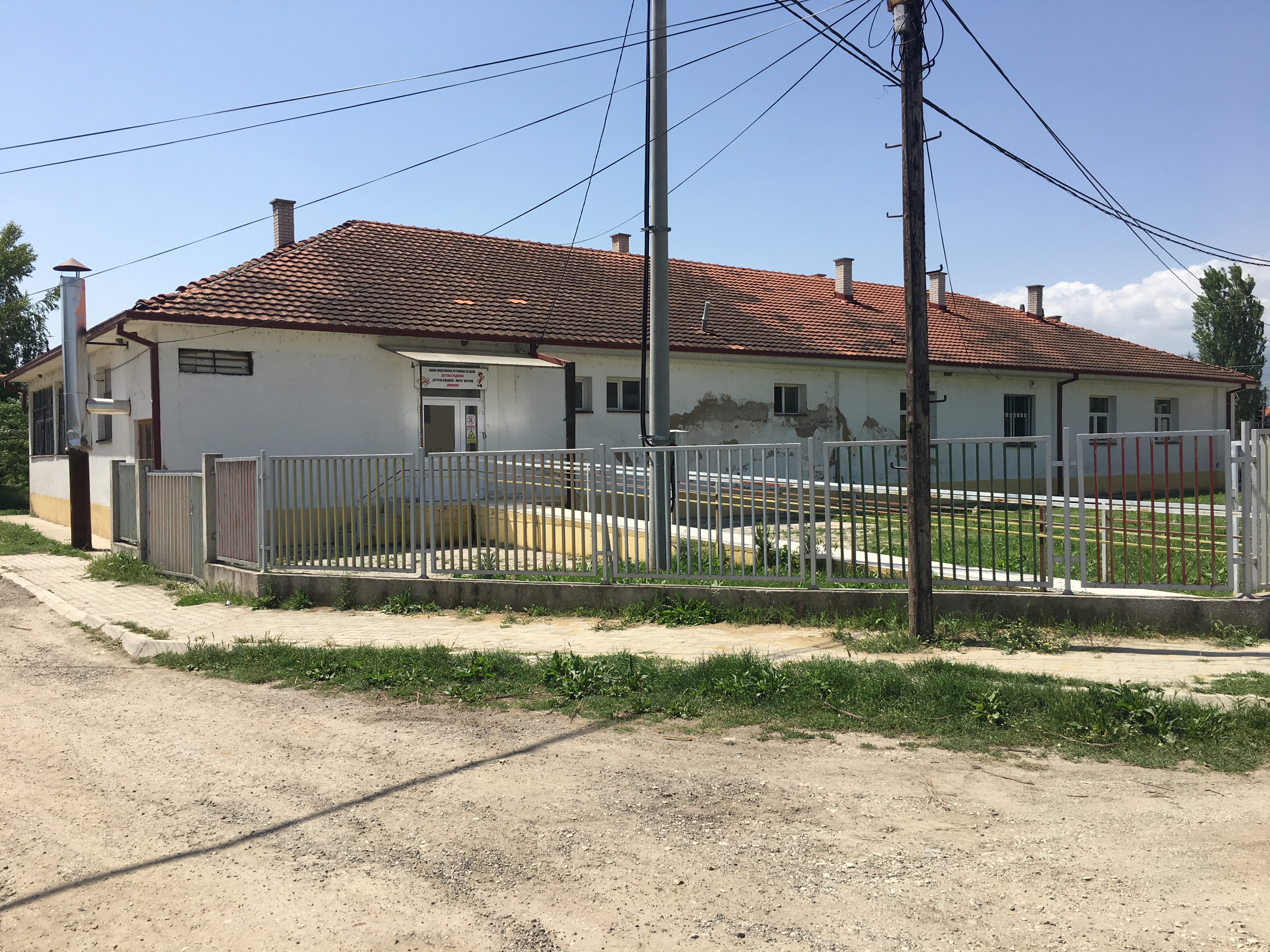 The primary school in the village of Dolno Orizari